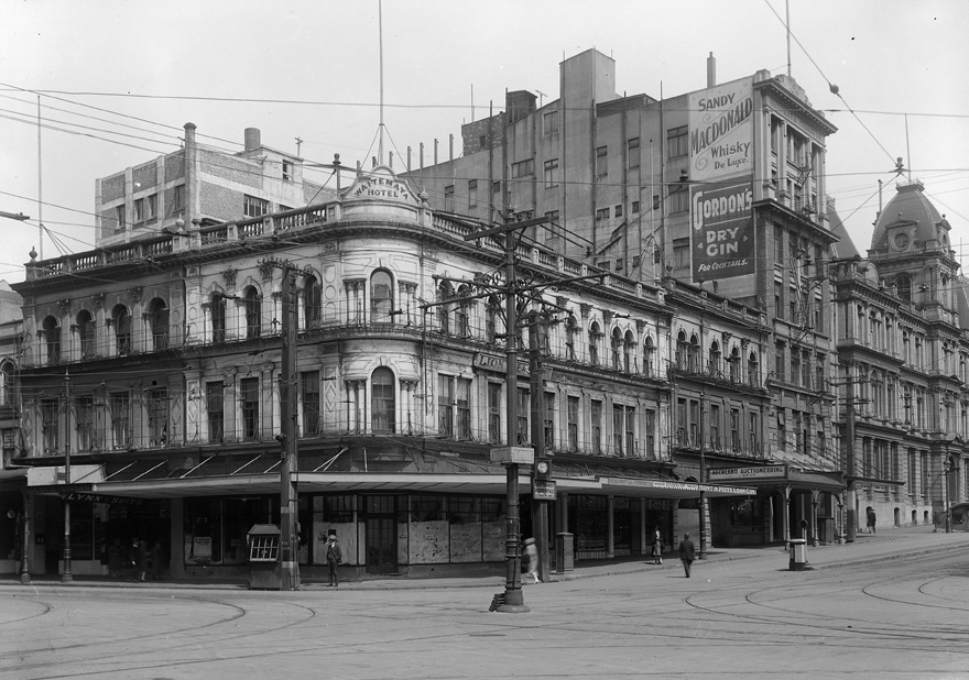 Looking west along Customs Street West (right) from the Queen Street (left) intersection, showing the Waitemata Hotel, premises of R Walker and Son, (centre), Monte de Piete Loan Company, Auckland Auctioneering Company Limited, and Customs Buildings (extreme right). Sir George Grey Special Collections, Auckland Libraries, 4-1717.